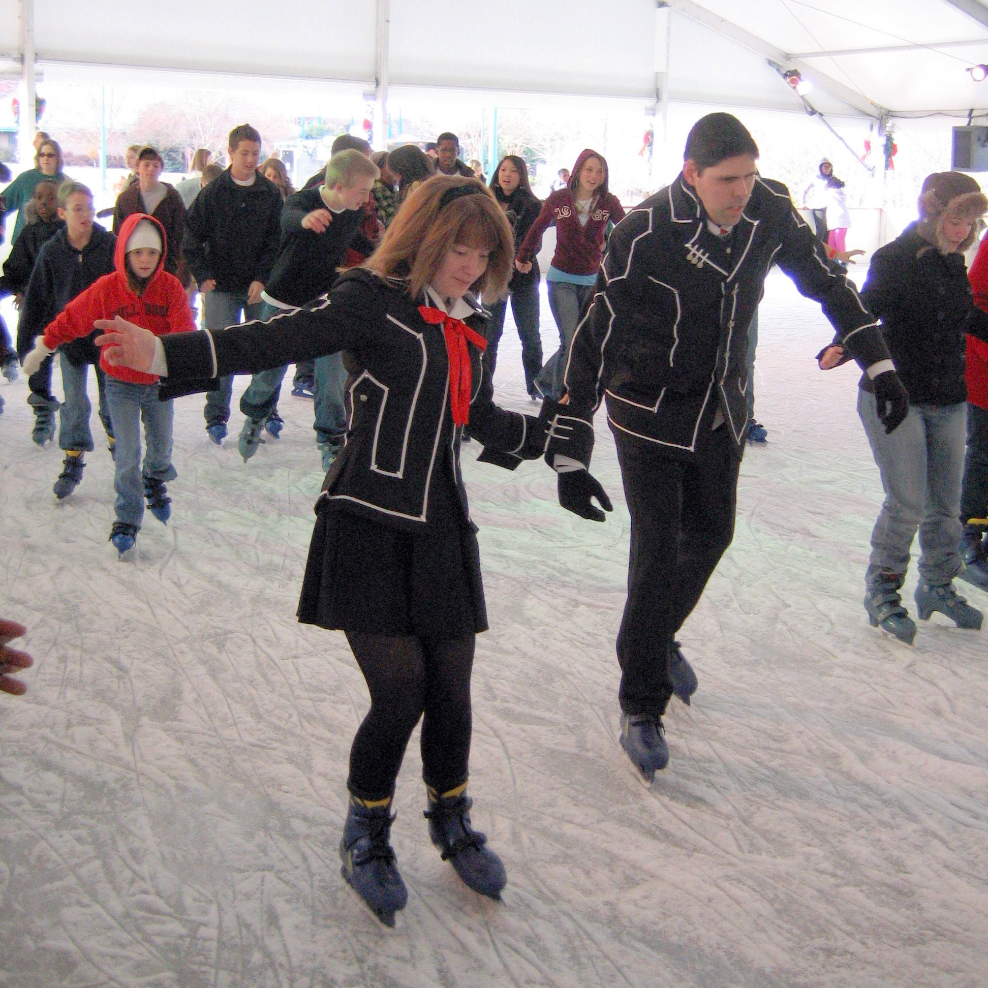 Cosplayers at MomoCon's "Cosplay On Ice" event in 2008.